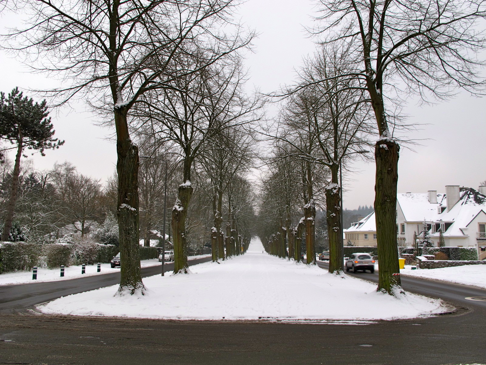 main street of Kraainem named after old family who owned the land